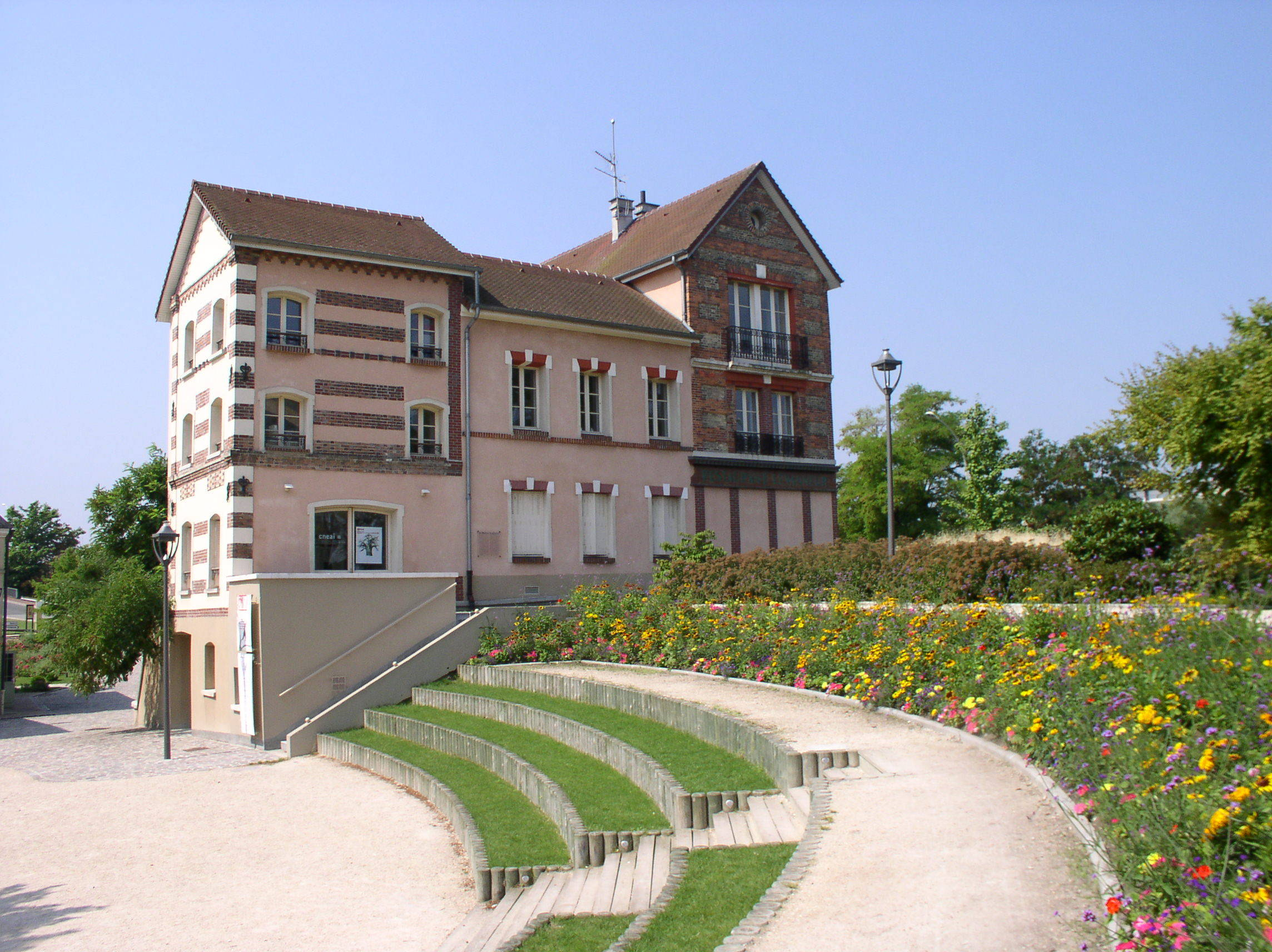 Maison Levanneur, major monument of Chatou, who's located the Cneai (National Centre for Edition, Art and Image) XIXth century painters house